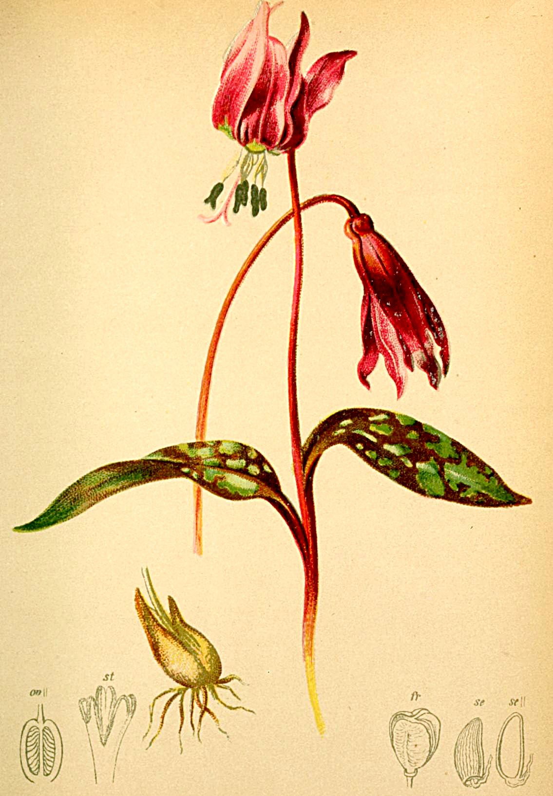 Erythronium dens-canis